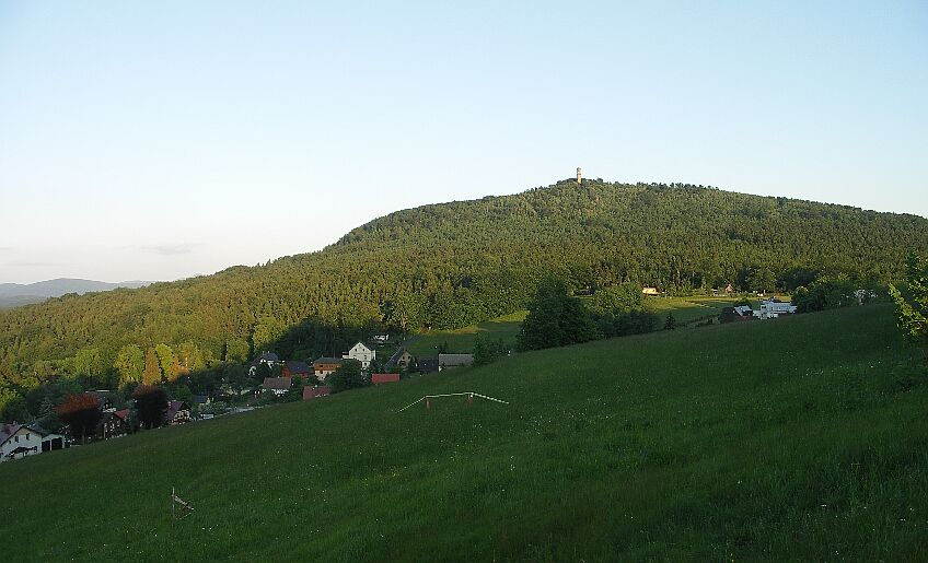 Hain, Saxony, Germany